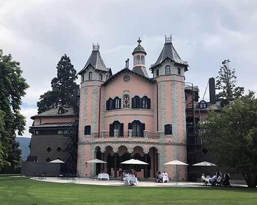 Apple's iPhone 7 picture of a luxurious hotel (chain MERCER), garden view.